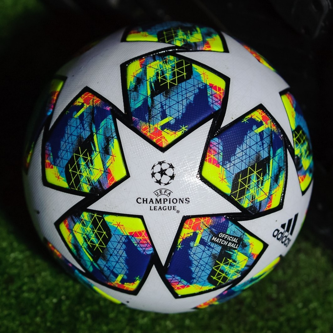 Adidas Finale 2019, the official ball of the 2019-20 UEFA Champions League group stage, as pictured during a game between FC Lokomotiv Moscow and Atlético Madrid.